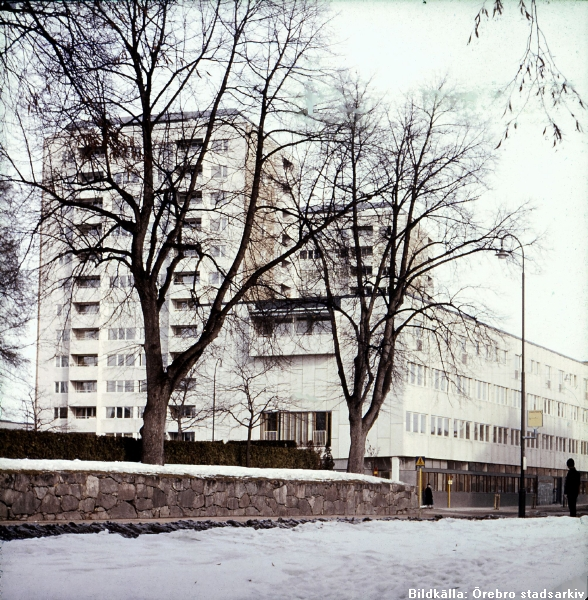 Örebro, southern part of the city center